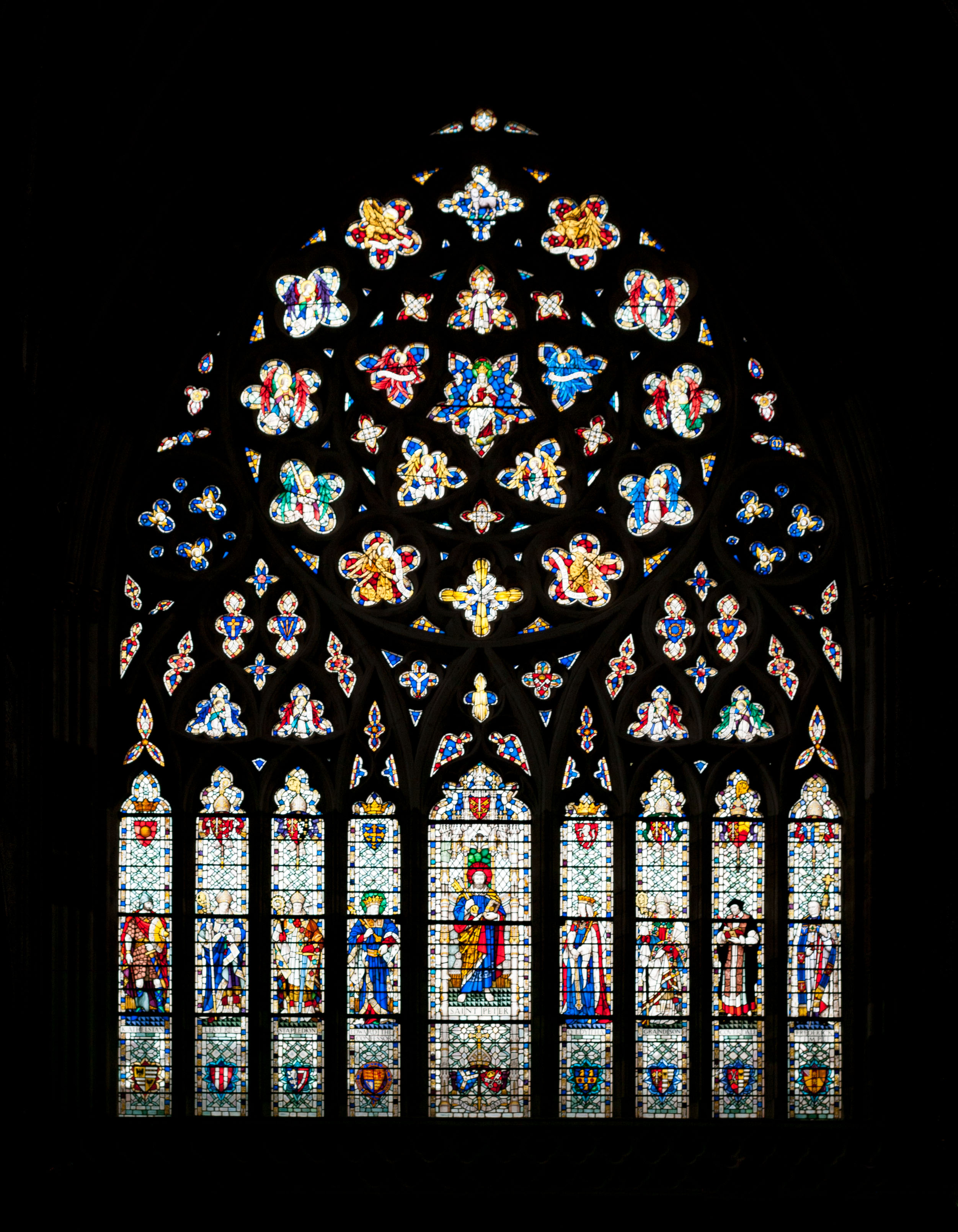 Stained glass window of Exeter Cathedral